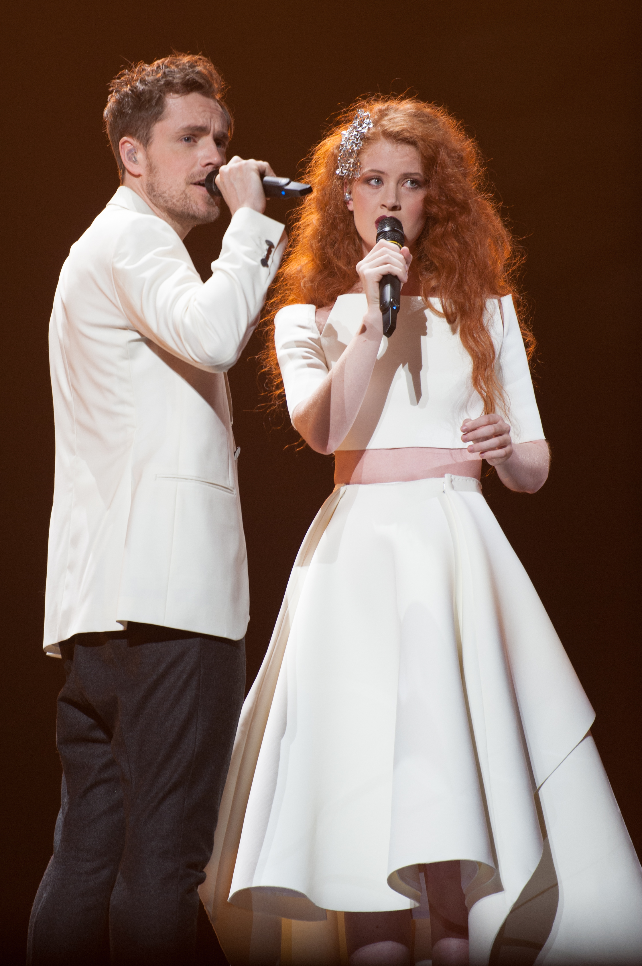 Eurovision Song Contest Vienna 2015: Mørland & Debrah Scarlett